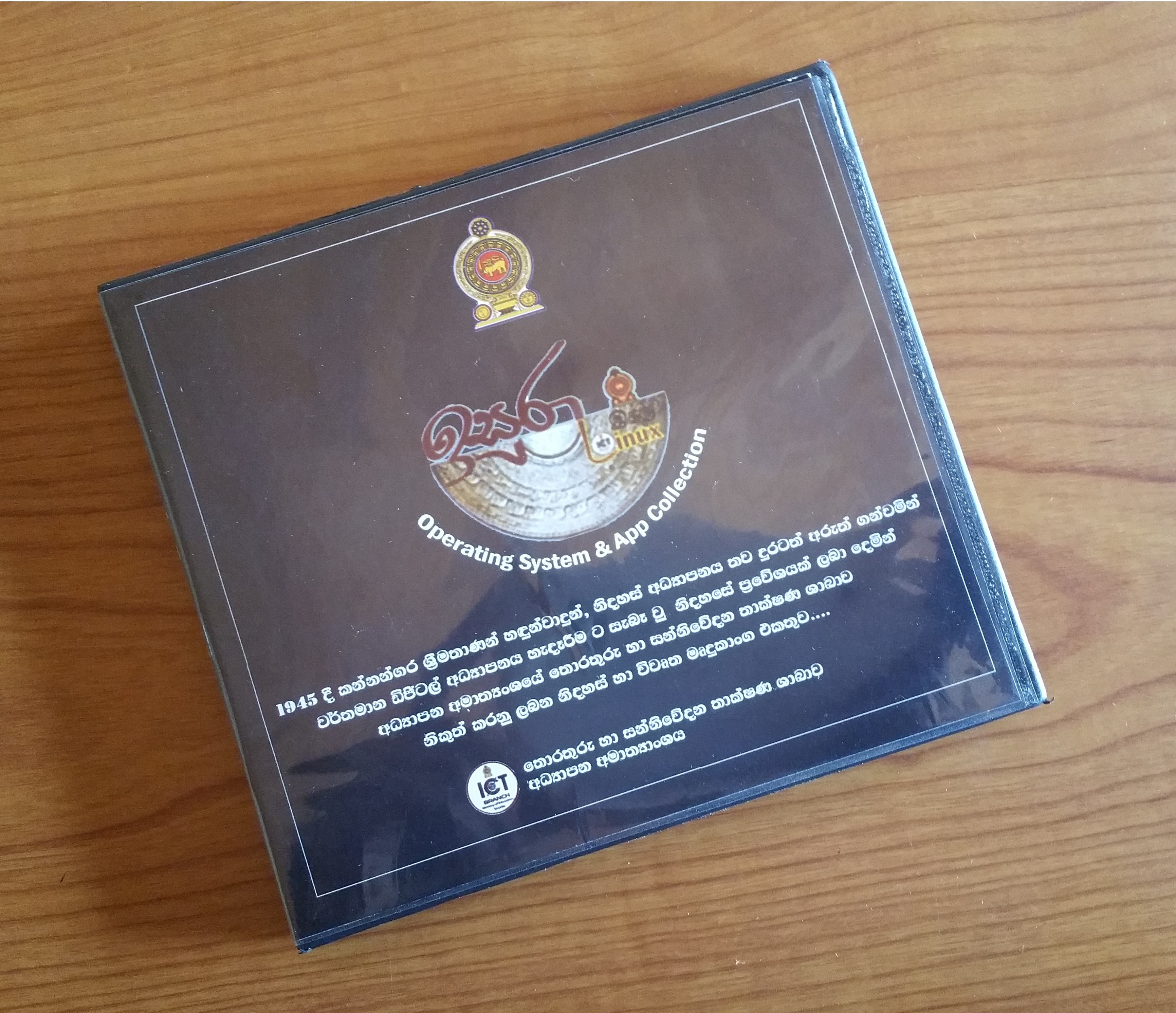 ISURU Linux 14.04 DVD Package